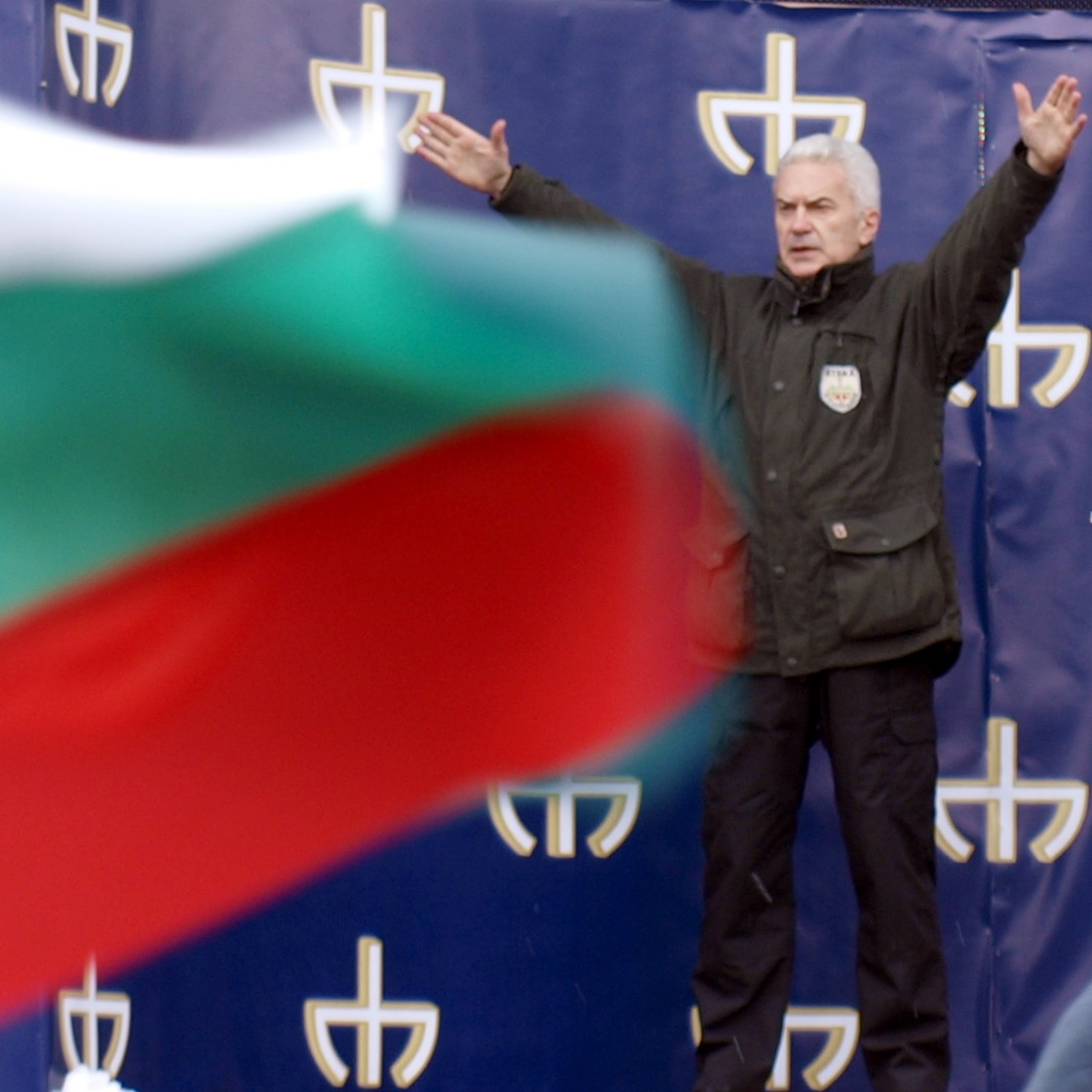 The leader of the Bulgarian nationalist party ATAKA